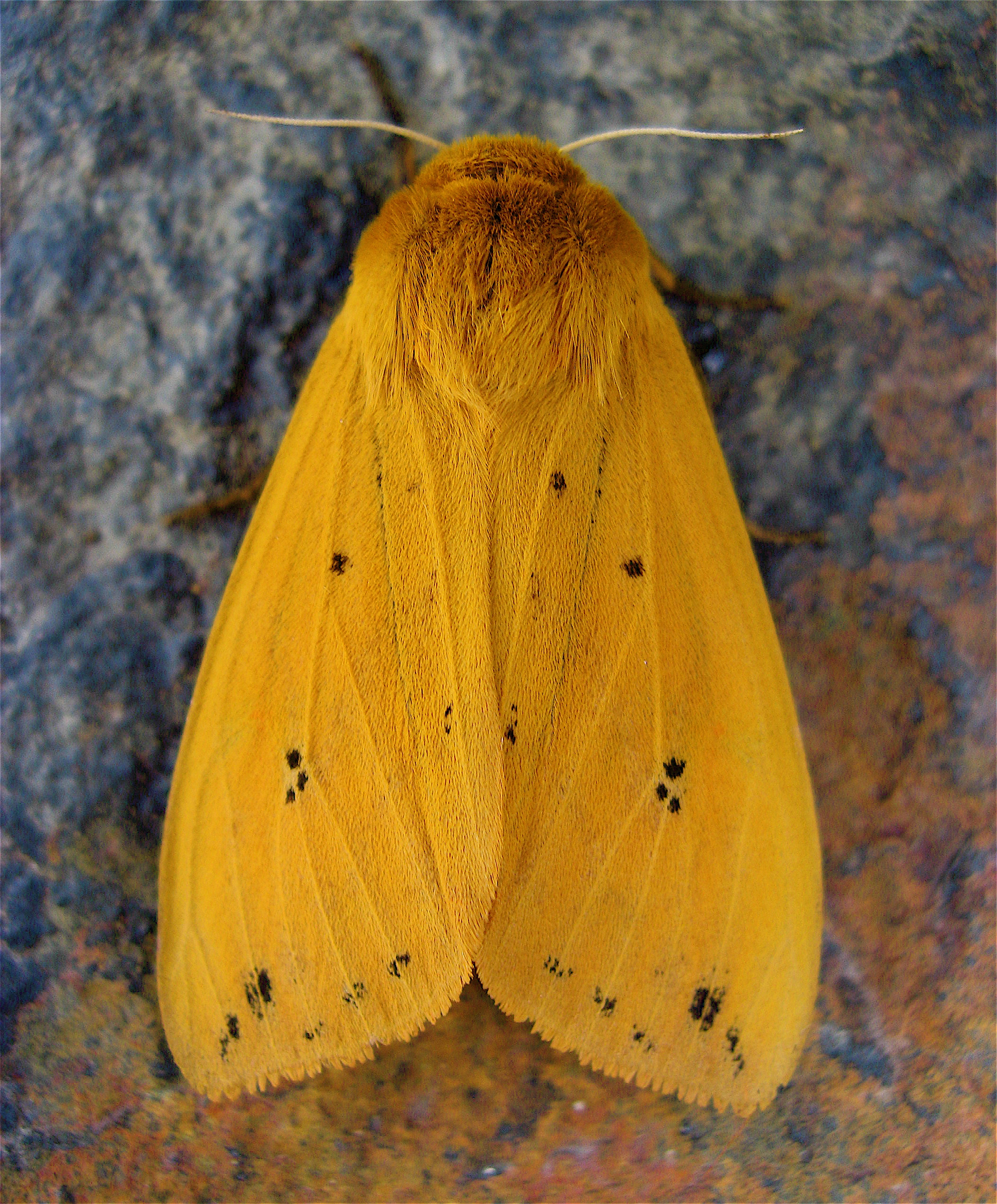 I found a strange furry pod under a rock near the pond. It was a thumb-sized nodule bristling with a jumbled matt of short brown hairs. I thought it might be an egg sac full of spiders so I saved it in an insect container, and waited. After about a month, I was surprised to see this enormous moth next to the pod. The furry home seemed untouched, but was light and empty. Her wings were still inflating, preparing for first flight. She looks quite exotic, like a visitor from afar